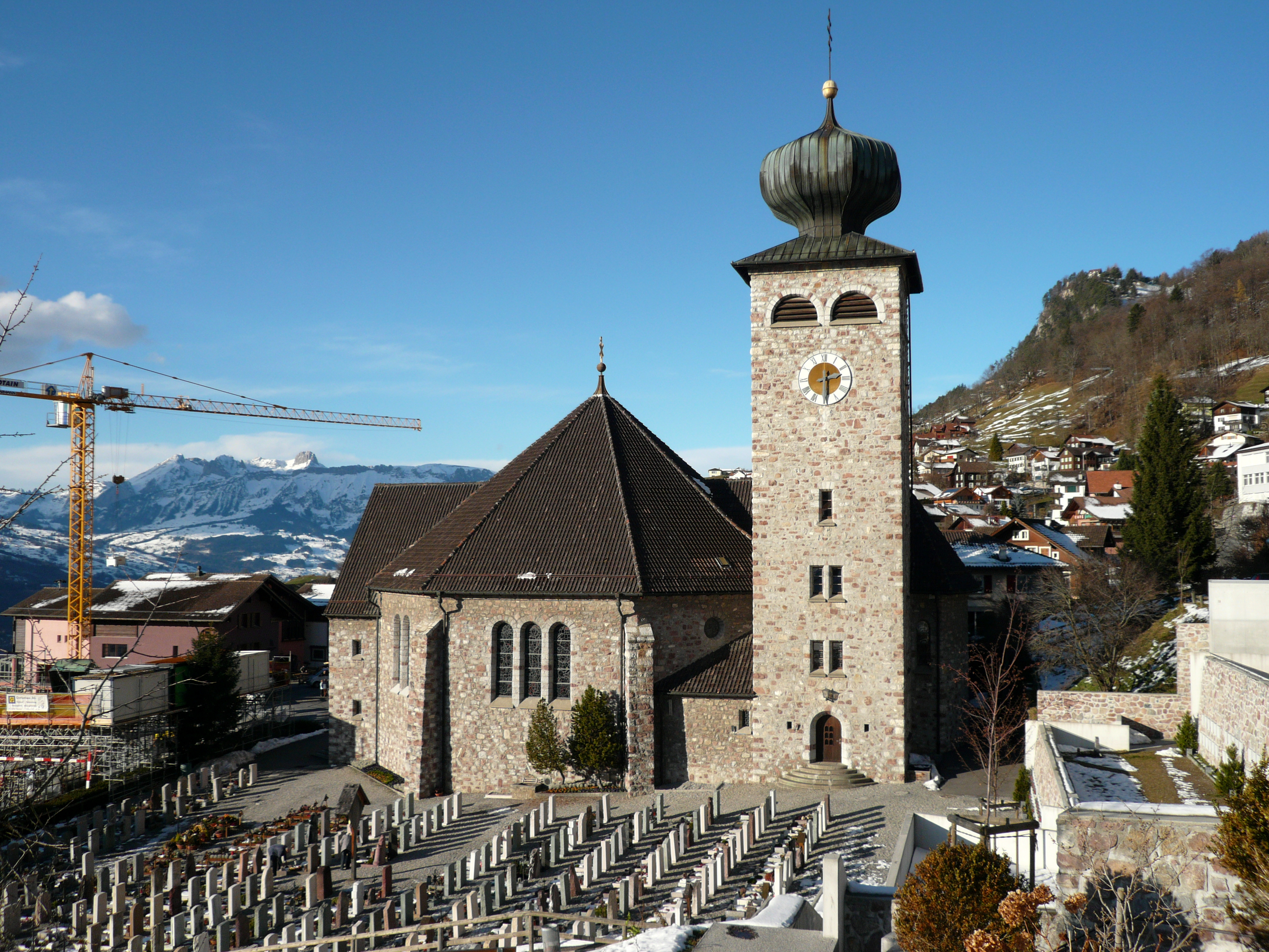 Church of Triesenberg/Liechtenstein